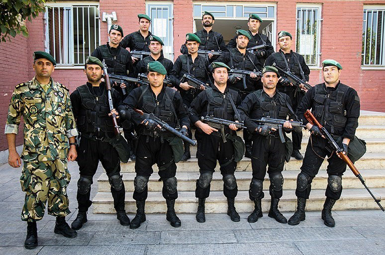 Commandos of 65th Airborne Special Forces Brigade of Iran exercising.